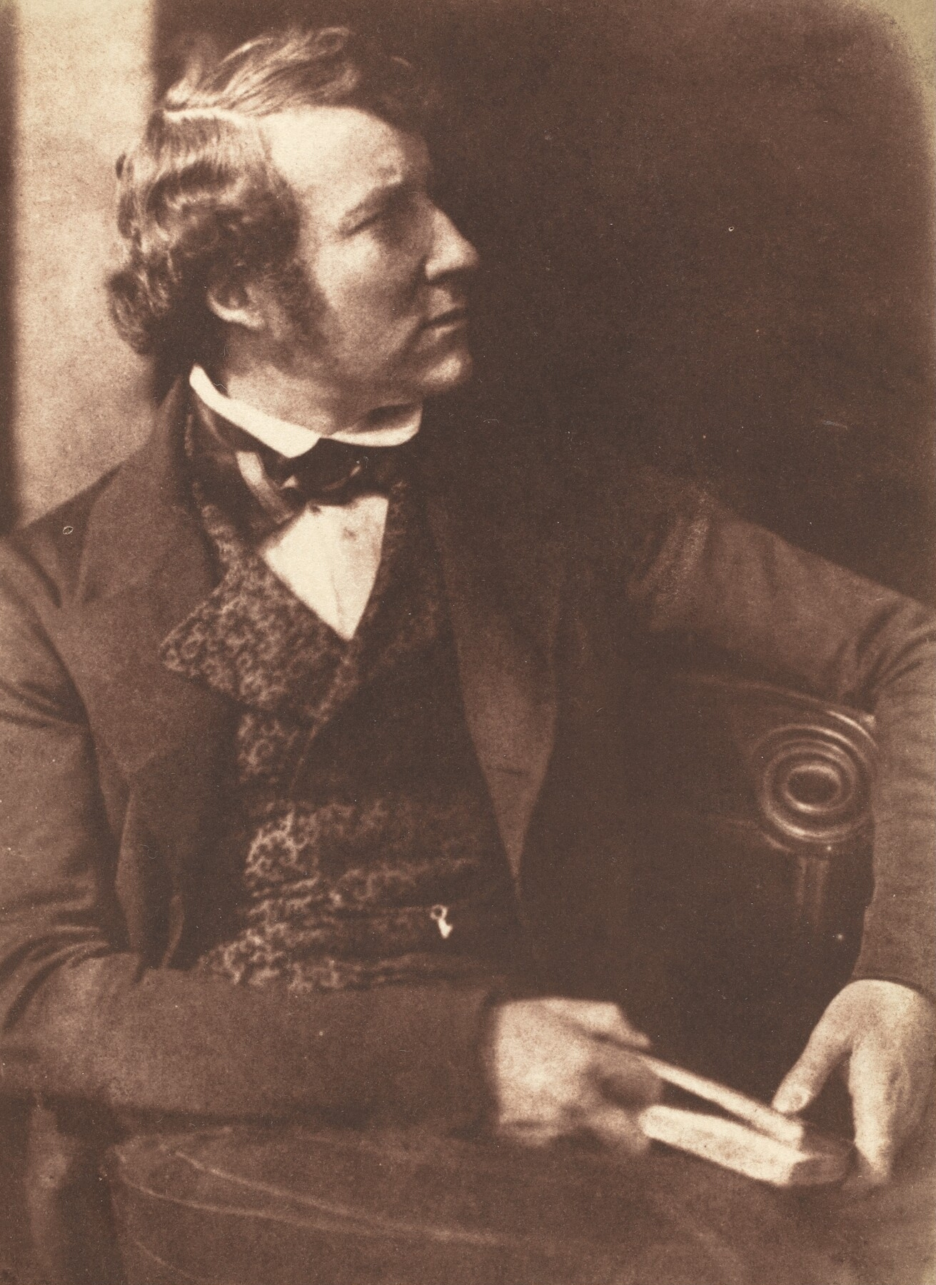 John Stuart-Wortley-Mackenzie, 2nd Baron Wharncliffe